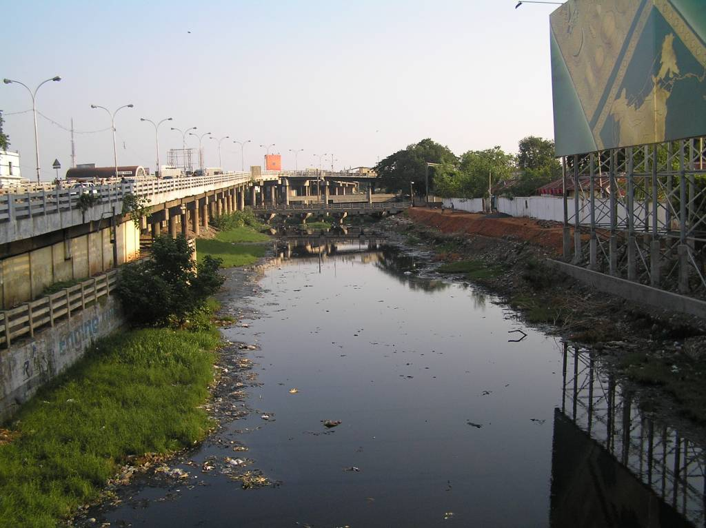 Pic of Buckingham Canal near Chennai Central, taken in Sep 2005. The dome of Park station on MRTS line can be seen on the centre-left of the picture, as also the famous Doordarshan Tower